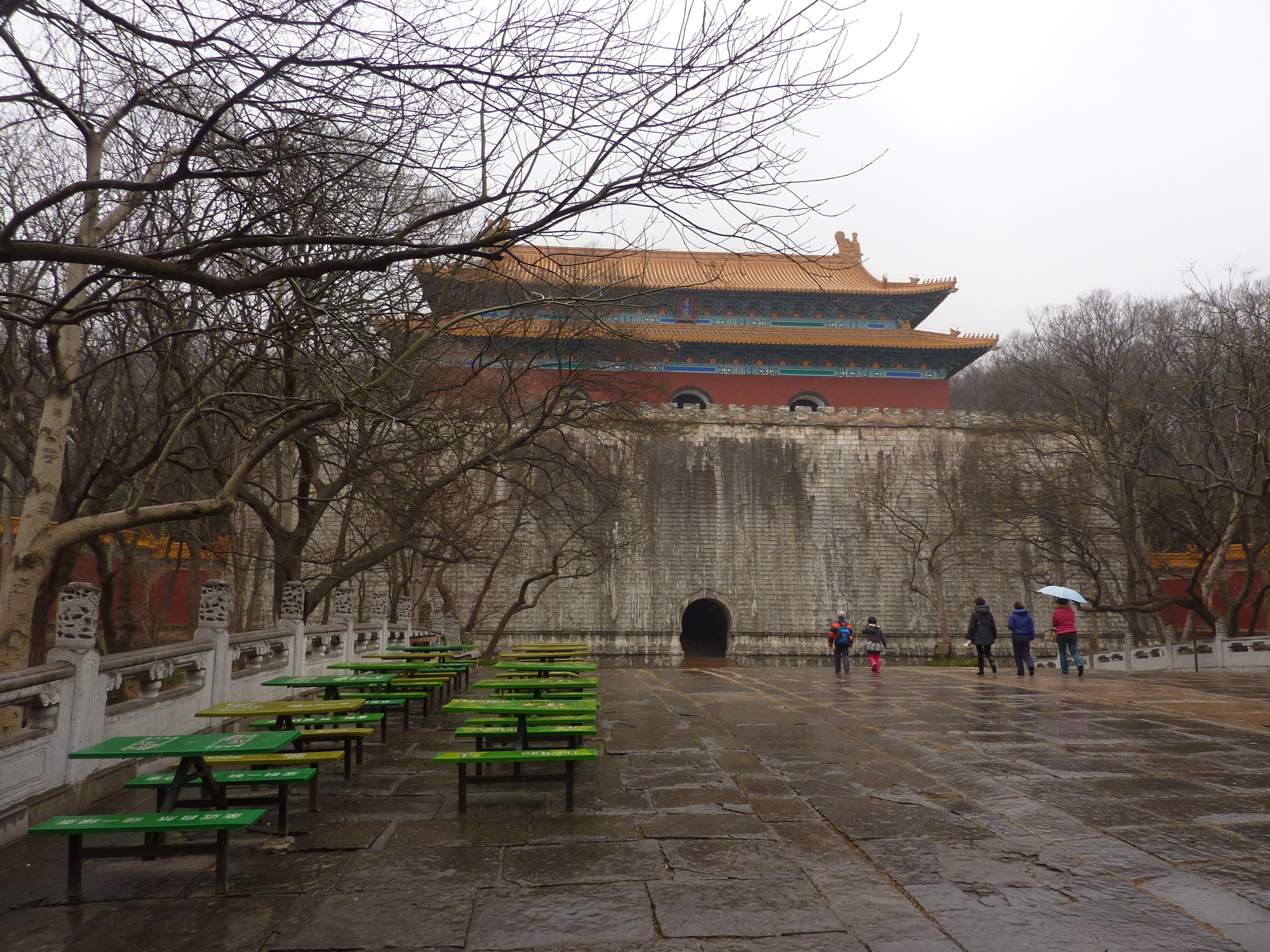 The Ming Lou / Soul Tower, the main structure of the Ming Xiaoling mausoleum.